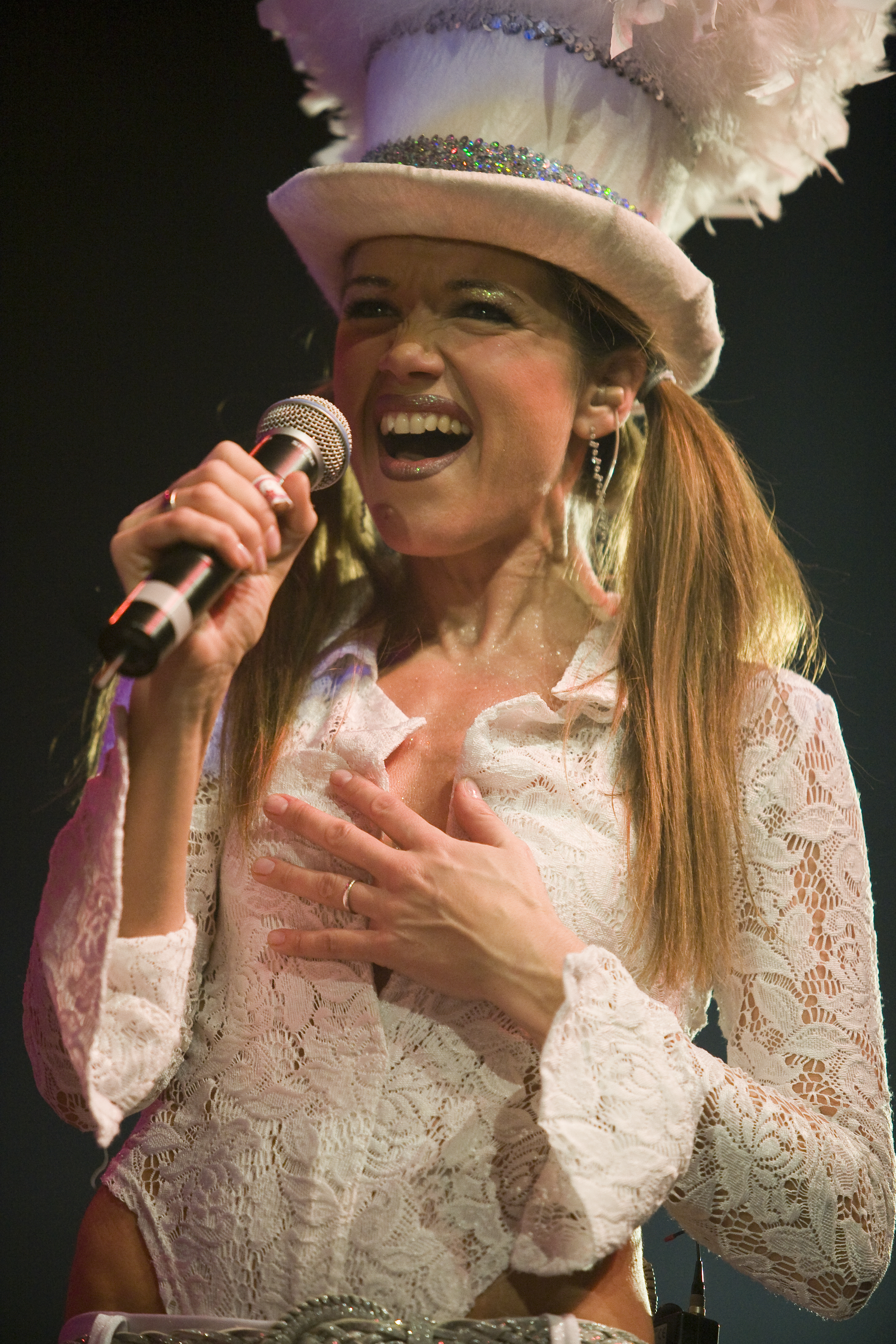 Anke Engelke with “Fred Kellner und die famosen Soulsisters” at Rhein-Mosel-Halle in Koblenz